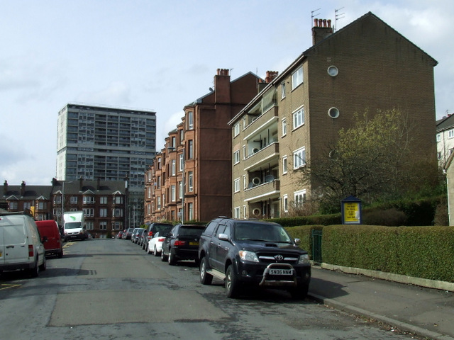 Thornwood Terrace Glasgow, Great Britain